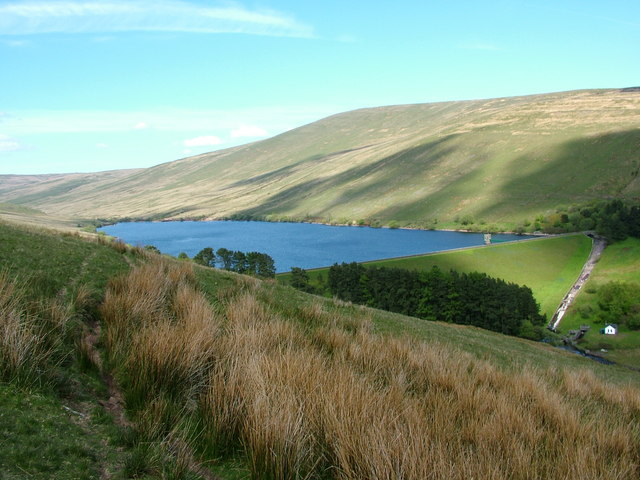 Ystradfellte Reservoir. This reservoir is situated between Fan Llia and Fan Fawr, just West of Pen Y Fan, this is a quiet area for walking and is basically hidden from the other more popular surrounding reservoirs and hills.